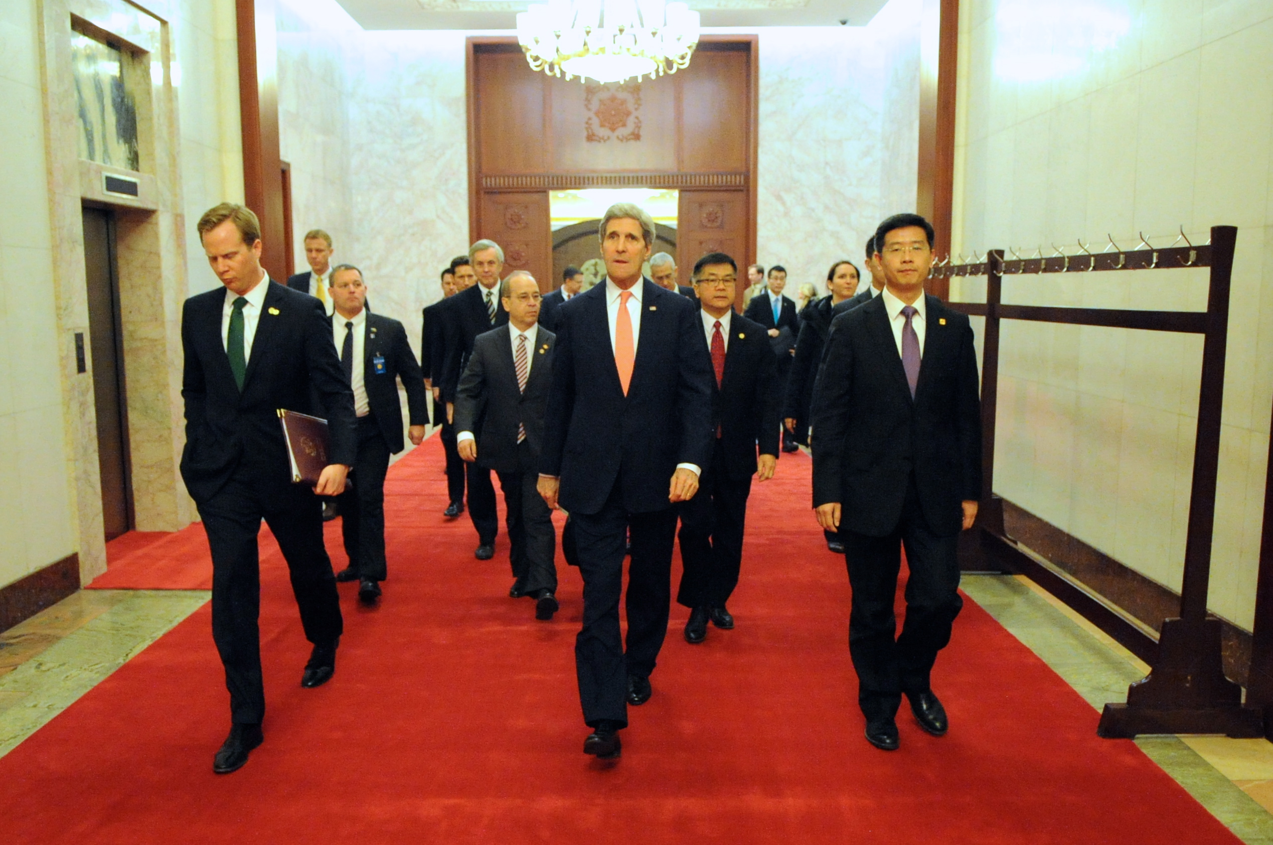 U.S. Secretary of State John Kerry walks through Beijing's Great Hall of the People en route to a meeting with Chinese President Xi Jinping in Beijing, China on February 14, 2014. [State Department photo/ Public Domain]